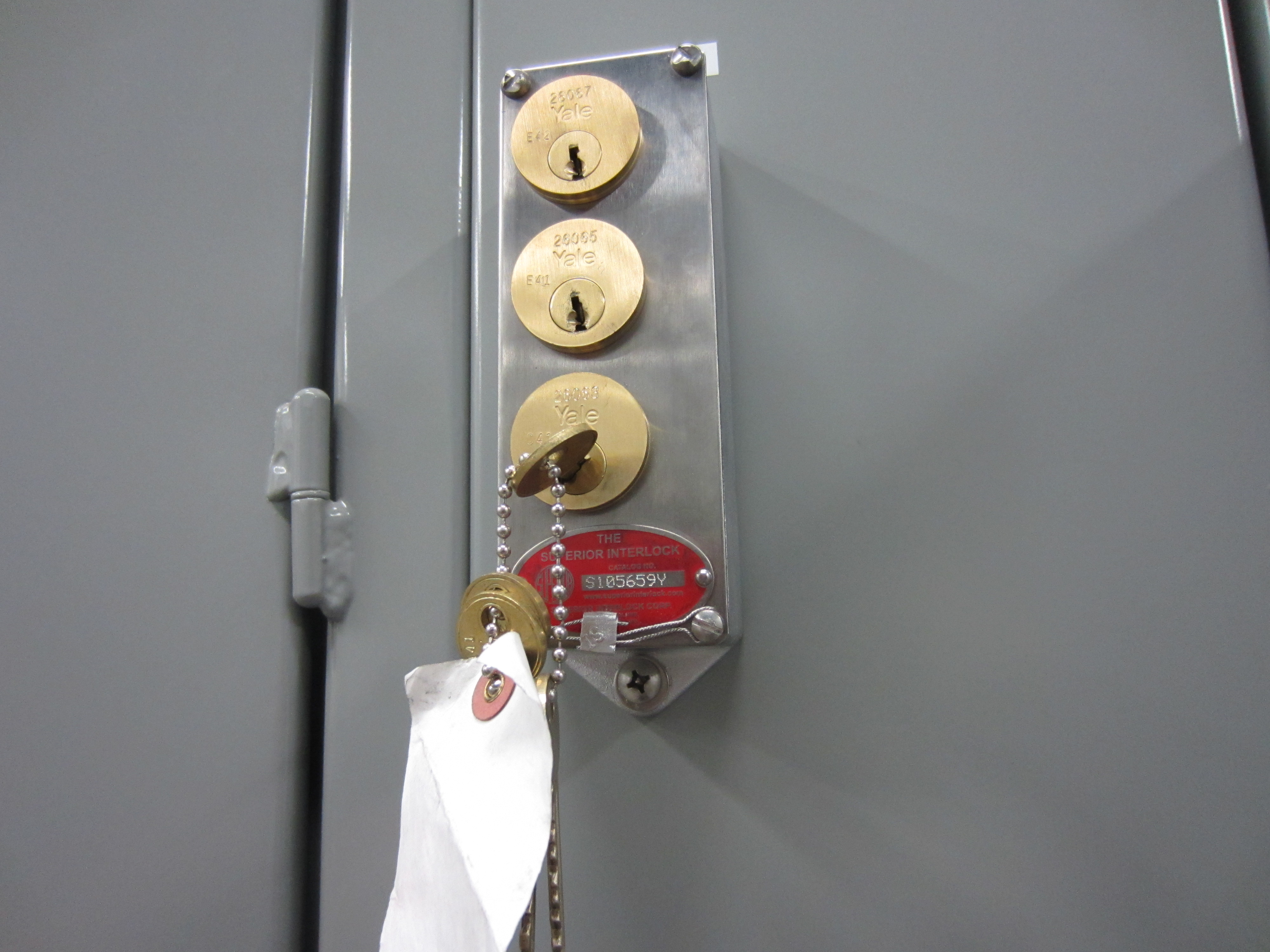 This is a transfer block, part of a trapped key interlock system. To obtain the keys required to open other doors, a key must be inserted in this block and turned, releasing two keys. Until the released keys are returned, this key is held and cannot be used to unlock an upstream protective disconnecting device.